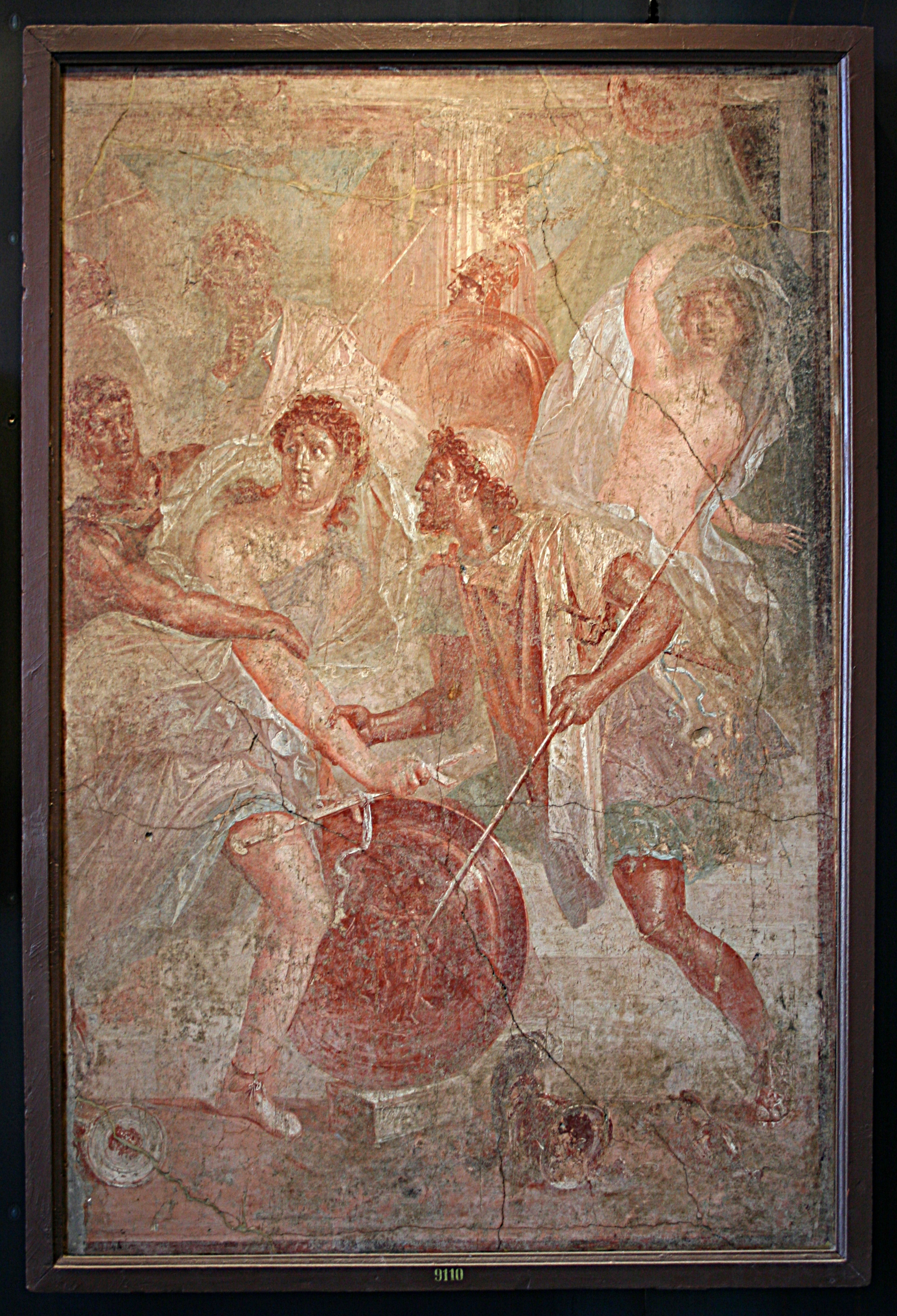 Piece of a fresco depicting Achilles on Skyros from Pompeii – “Casa dei Dioscuri”, Archaelogical museum of Naples, Italy.